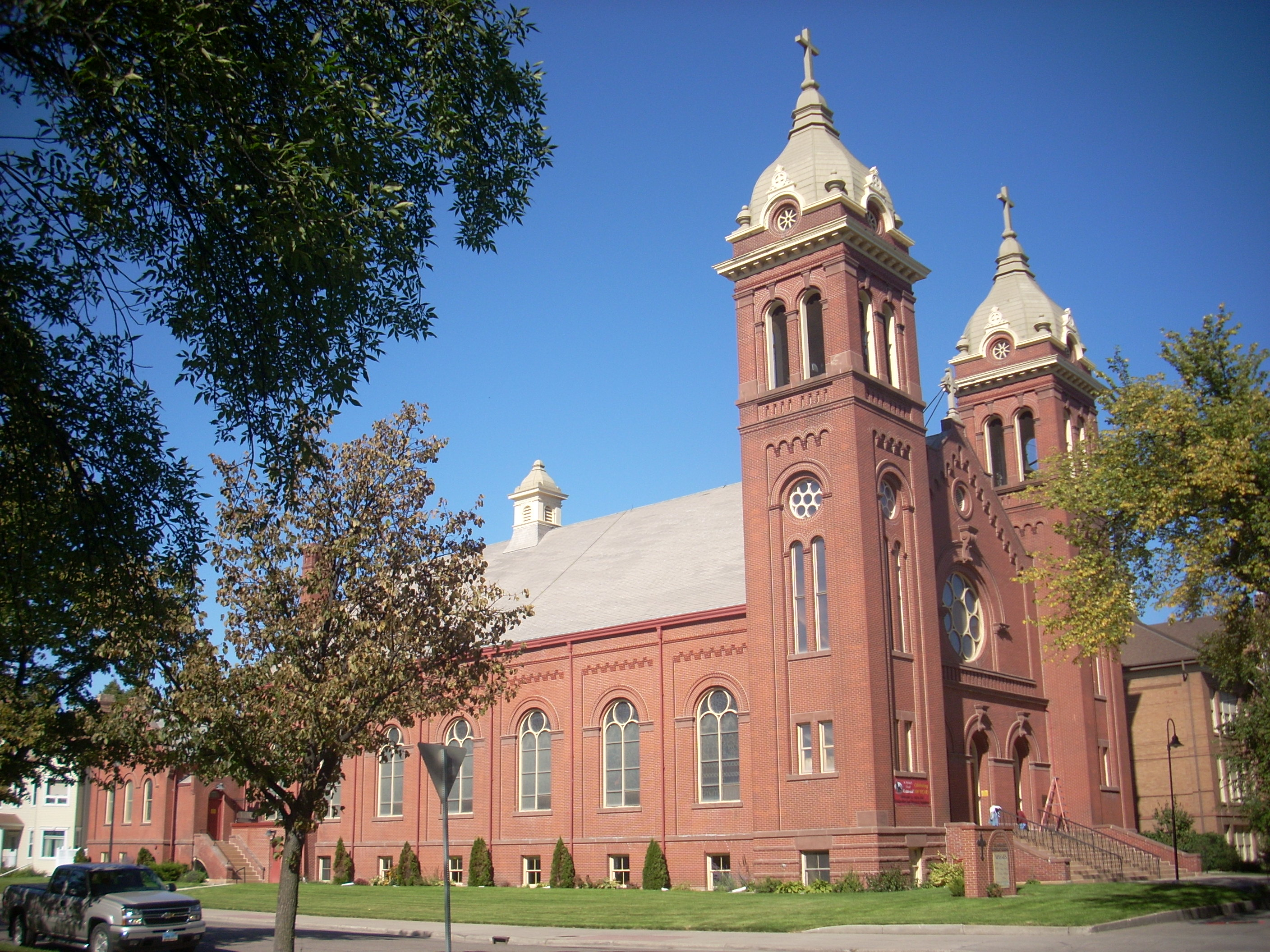 St Michael's Roman Catholic Church 520 N 6th St, Grand Forks North Dakota. Added to the National Register of Historic Places on June 30, 1988.